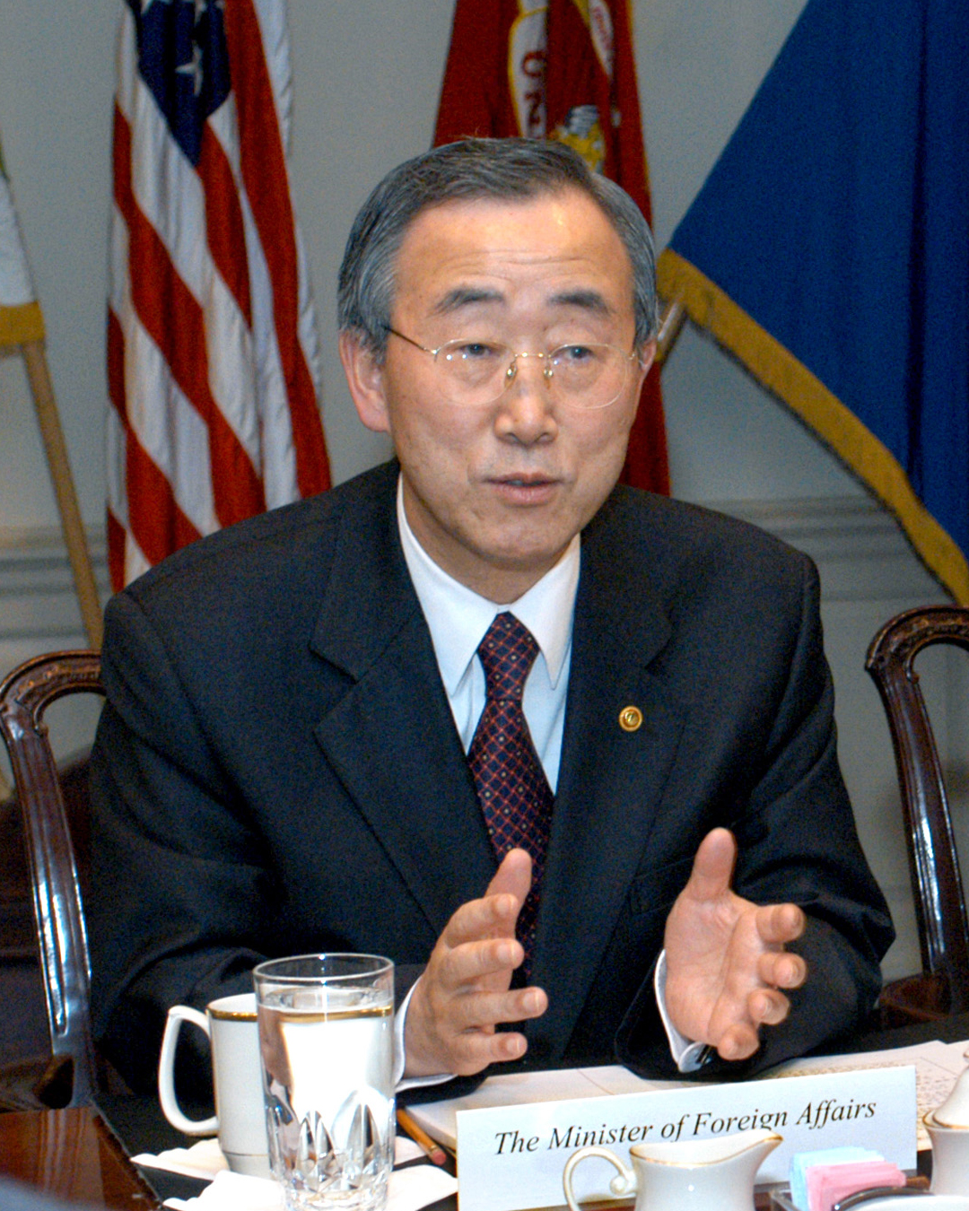 Cropped image of Ban Ki-moon. [Original Description: South Korean Minister of Foreign Affairs Ban Ki-moon (left) meets with Secretary of Defense Donald H. Rumsfeld (foreground) in the Pentagon on March 4, 2004. A range of bilateral security issues were expected to be discussed. Among those participating in the talks is Minister Ban's deputy Lee Soo Hyuck (center). DoD photo by R. D. Ward. (Released) 040304-D-9880W-047 ]